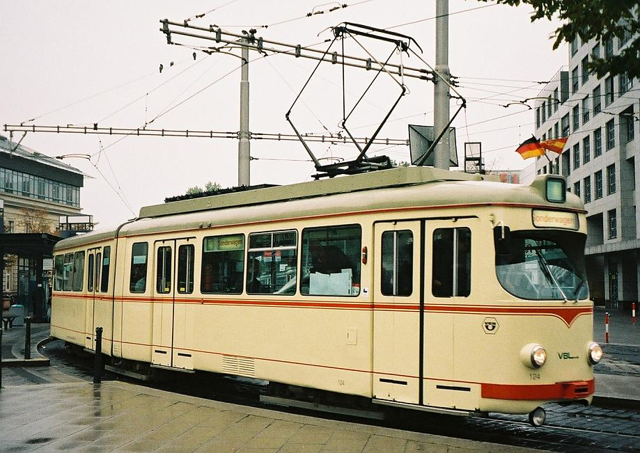 Old Duewag-tram in Mannheim, germany My own photo from 26-sep-2004